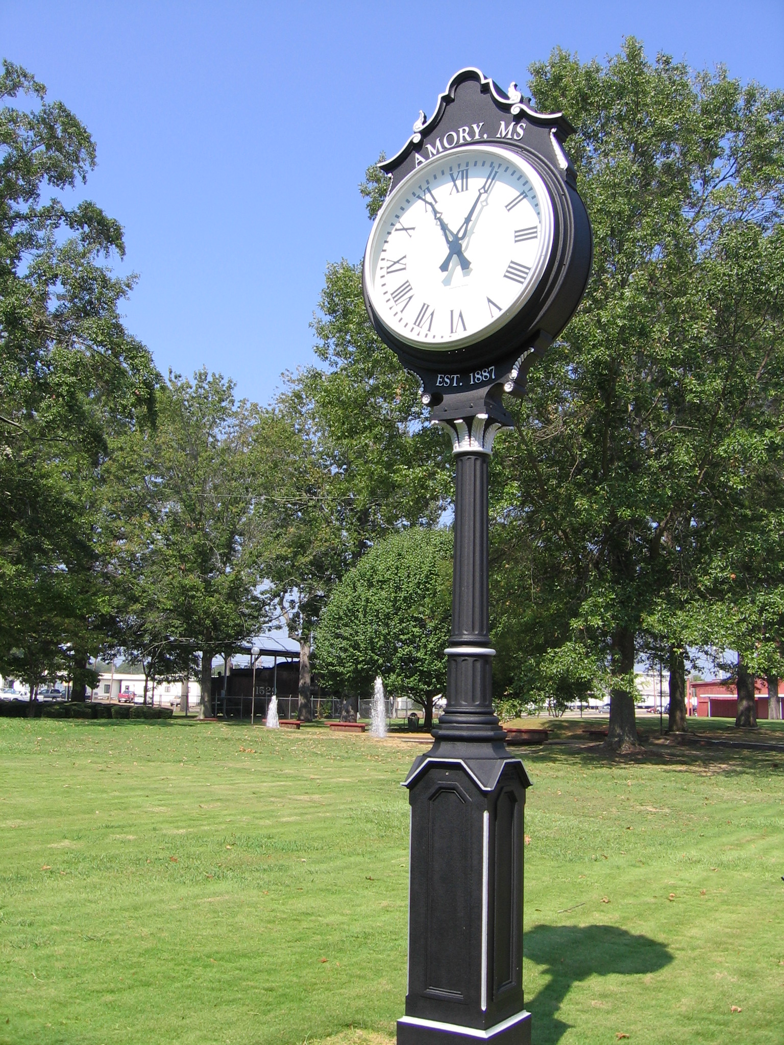 Frisco Park, Amory, Mississippi, 2005-09-09